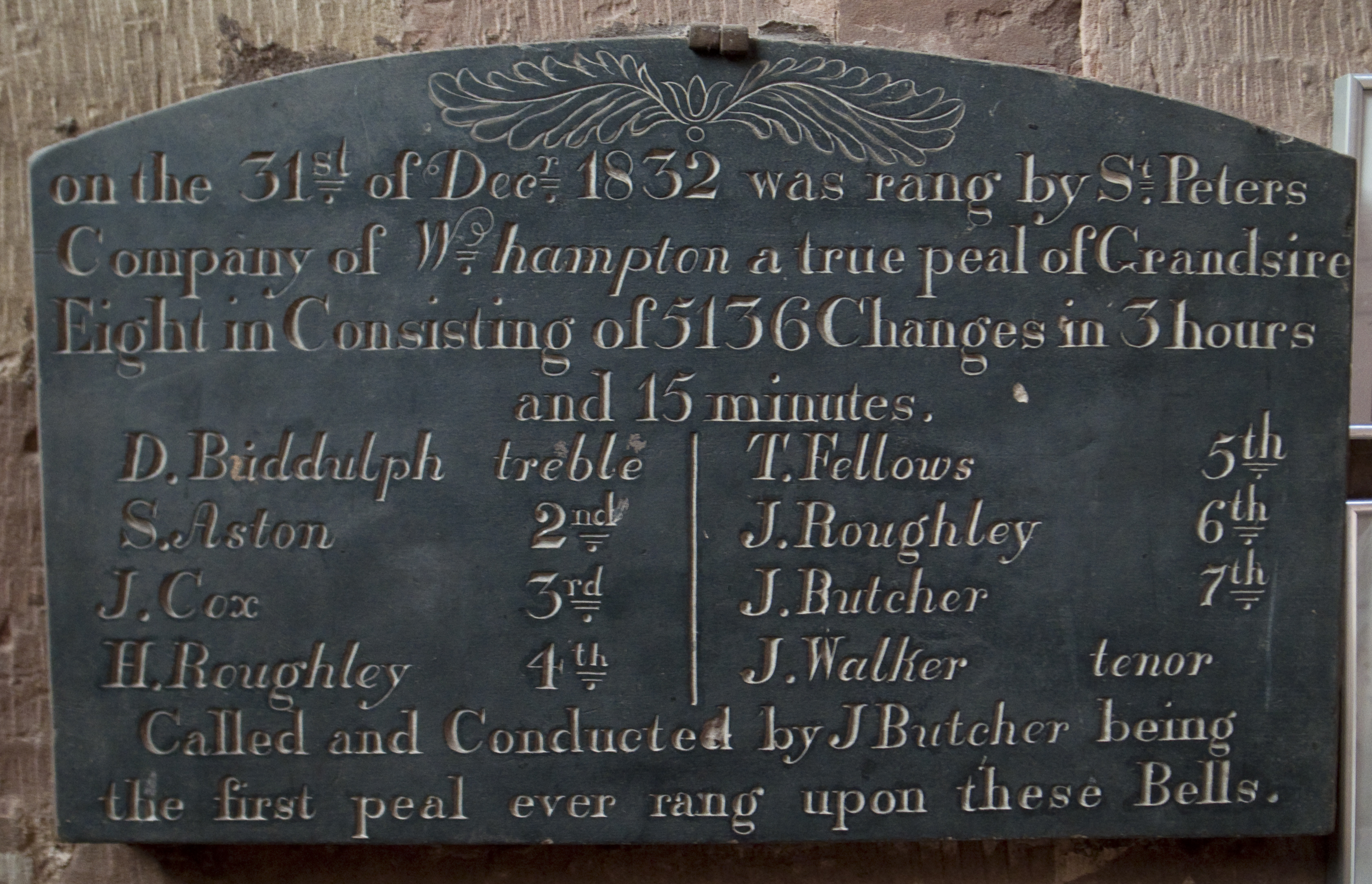 Peal board in the ringing chamber at St Michael and All Angels church, Penkridge, Staffordshire, England. It records the first peal rung on the bells in 1832. The bells were cast by John Taylor in 1831